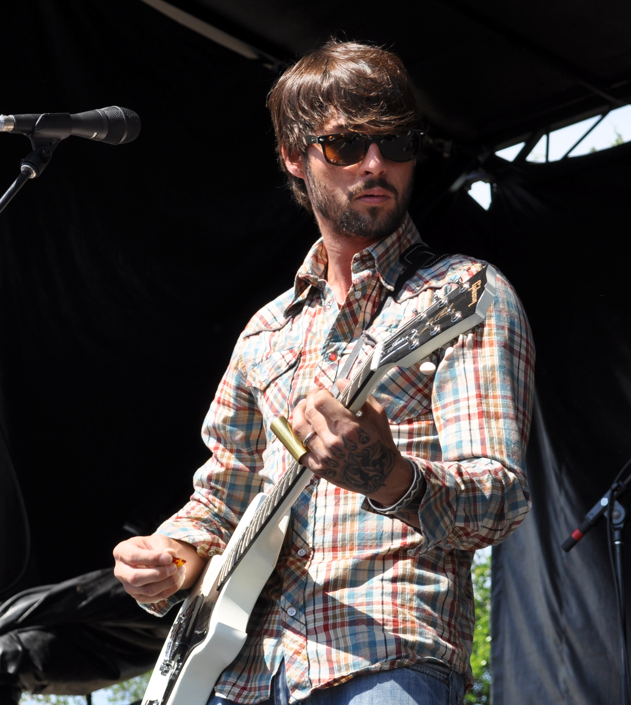 Ryan Bingham performing in Jacksonville, FL.